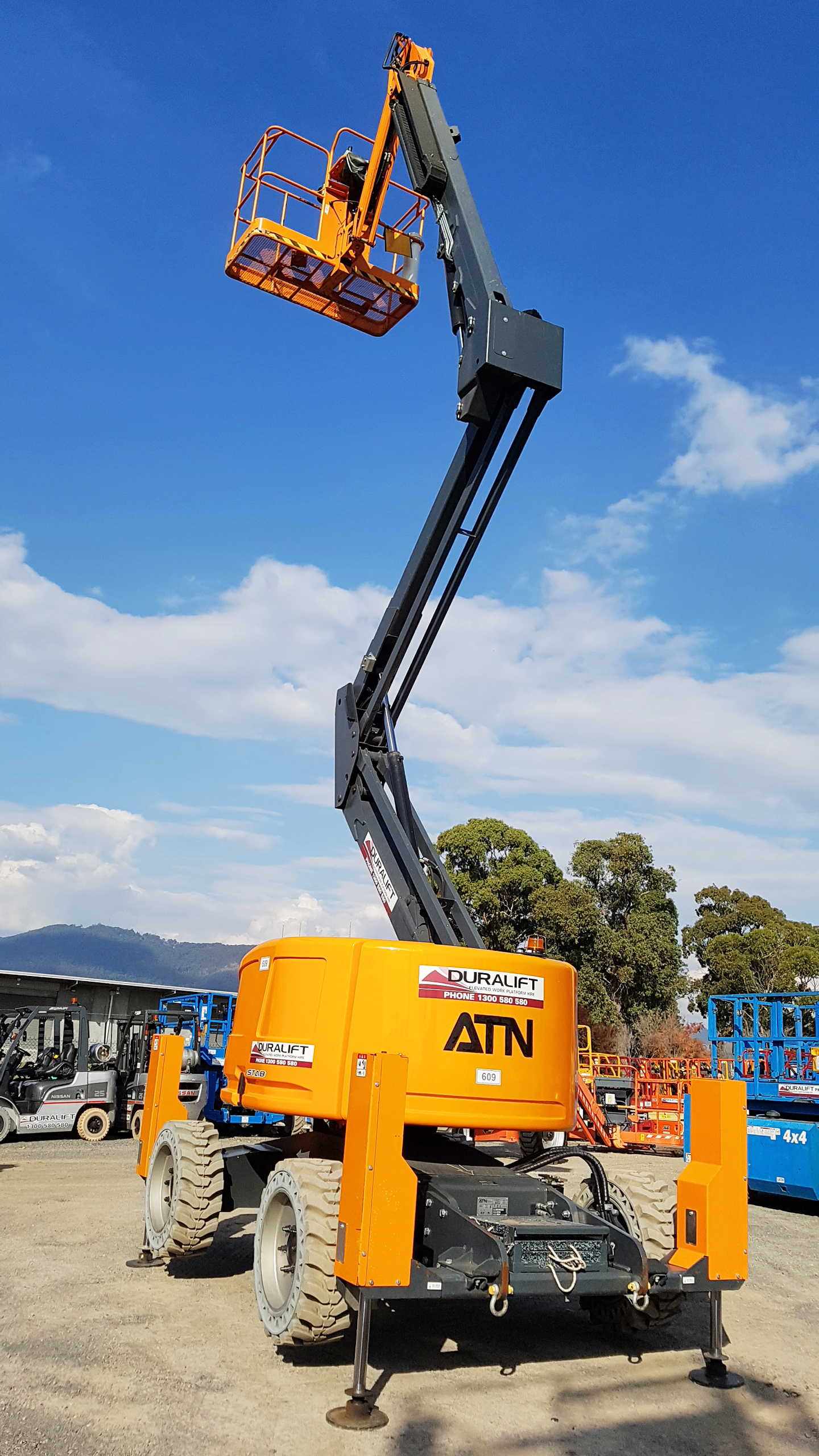 Jack Boom Lift showing articulated boom with outriggers deployed and wheels suspended at Duralift Access Hire